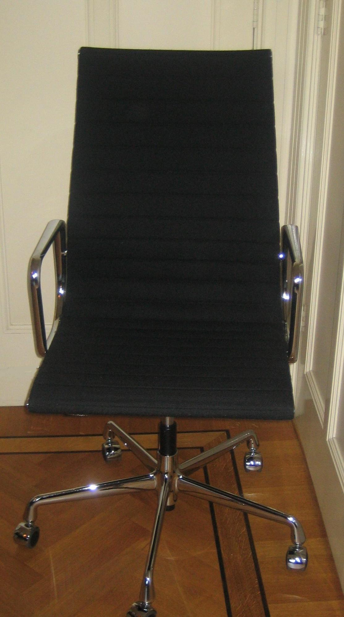 Charles Eames chair EA 119 Hopsak, first designed in 1958